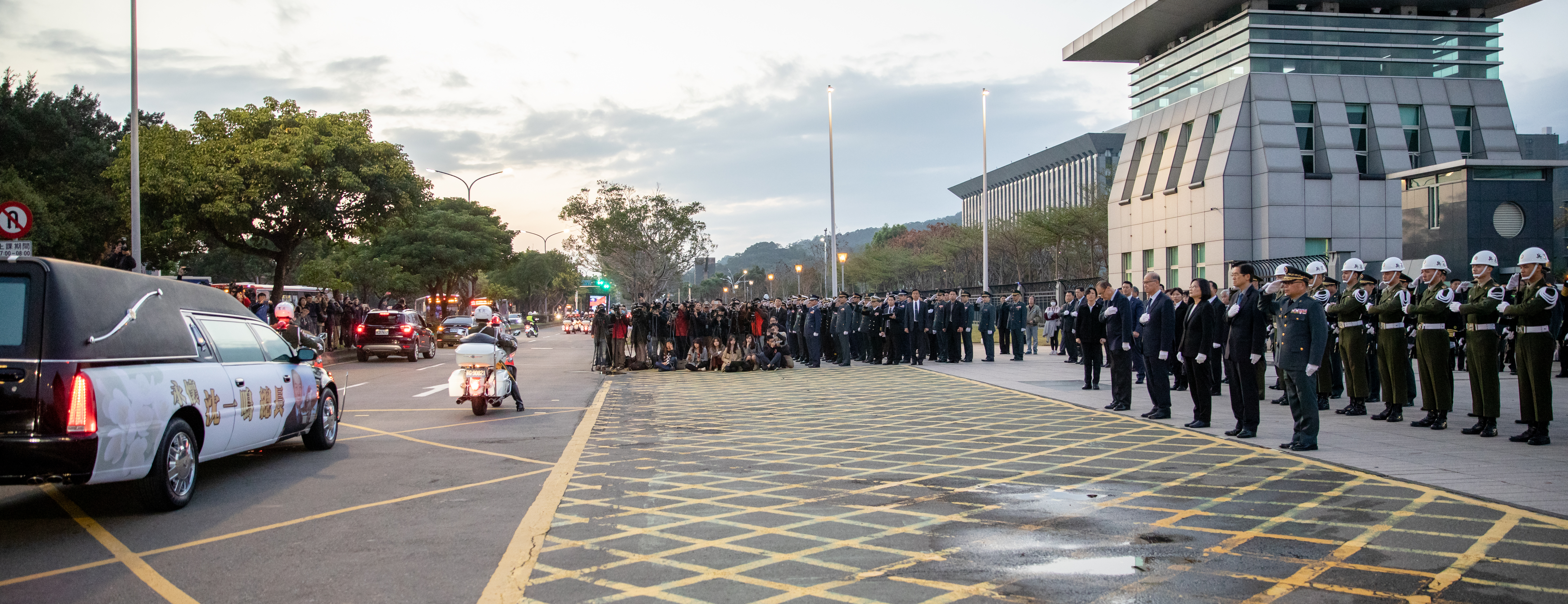 Official Photo by Wang Yu Ching / Office of the President